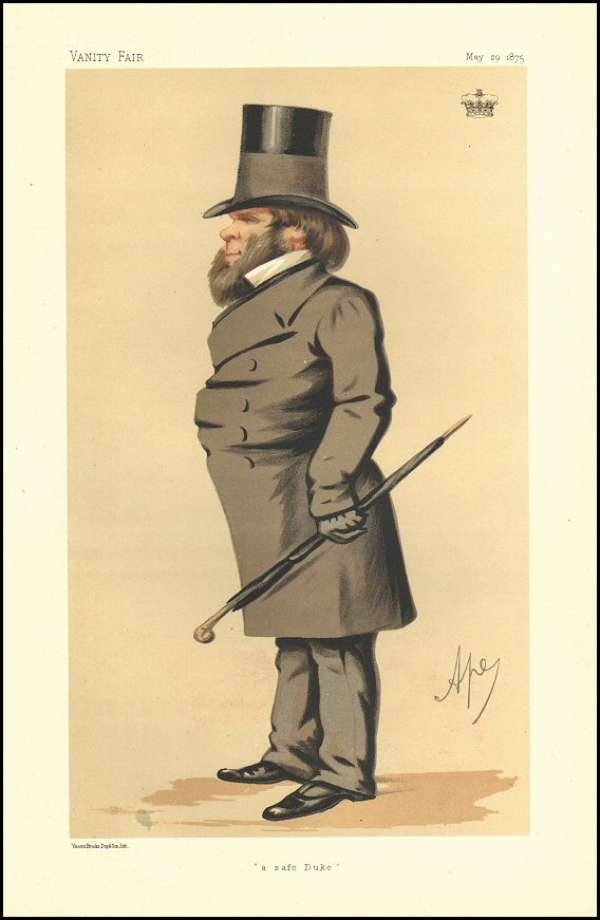 Caricature of Richard Temple-Grenville, 3rd Duke of Buckingham and Chandos. Caption read "a safe Duke".